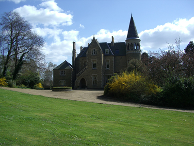 St Vincents Hall, Grantham. Gothic Revival mansion build by local industrialist Richard Hornsby. HQ of 5 Group Bomber Command during the second world war and operational command center for the Dambusters raid by 617 sqn in 1943.